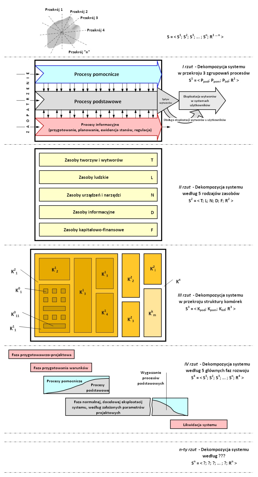 Figure 2. Diagram of the multi-dimensional SET model